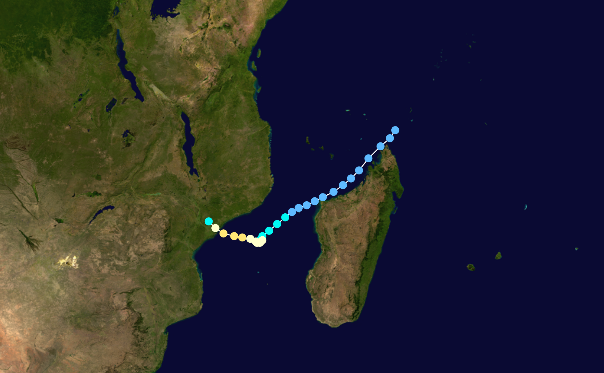 Cyclone Falao (1988) track. Uses the color scheme from the Saffir-Simpson Hurricane Scale.